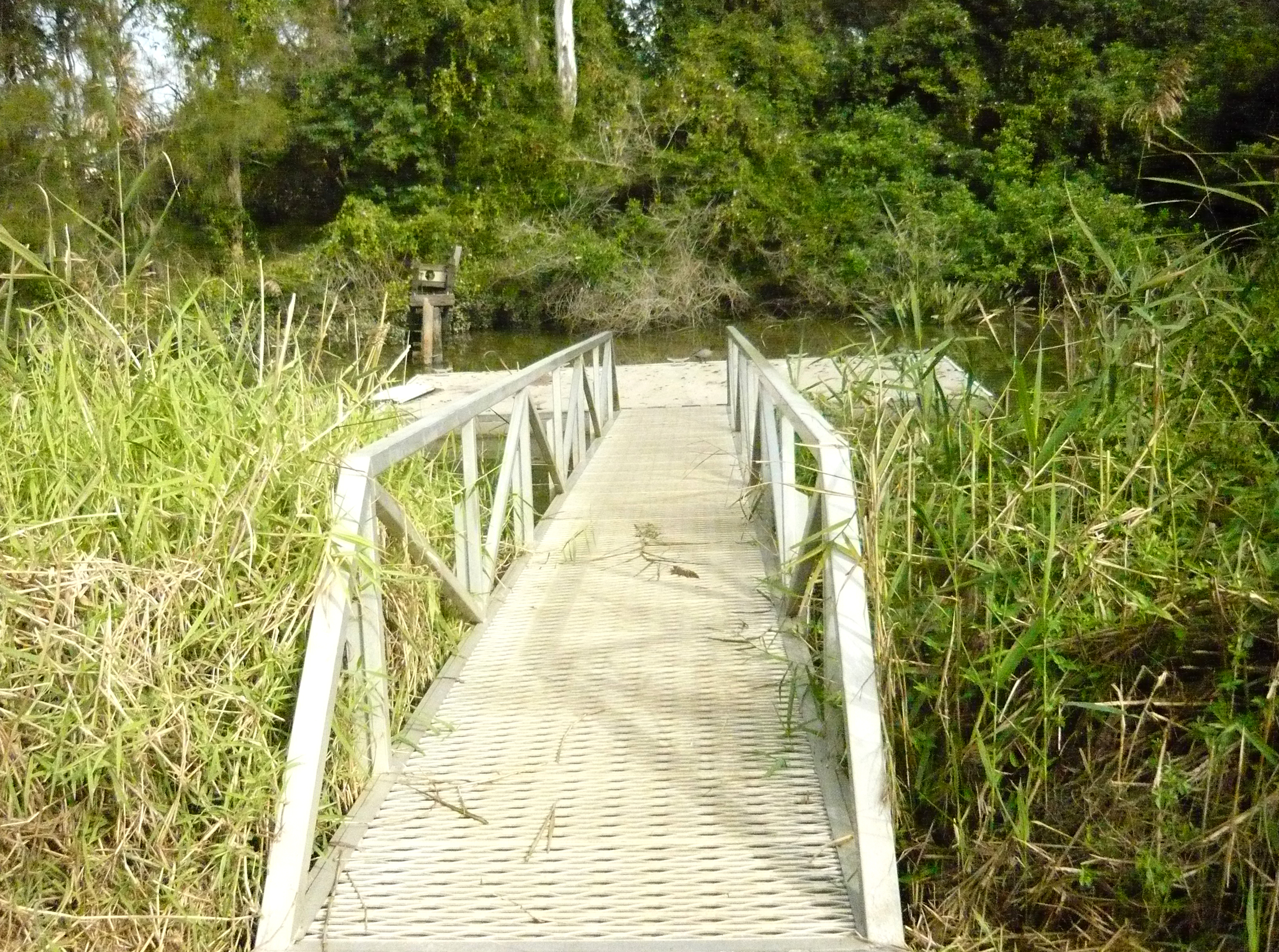 Pontoon at Cliveden Avenue Reserve, Oxley.